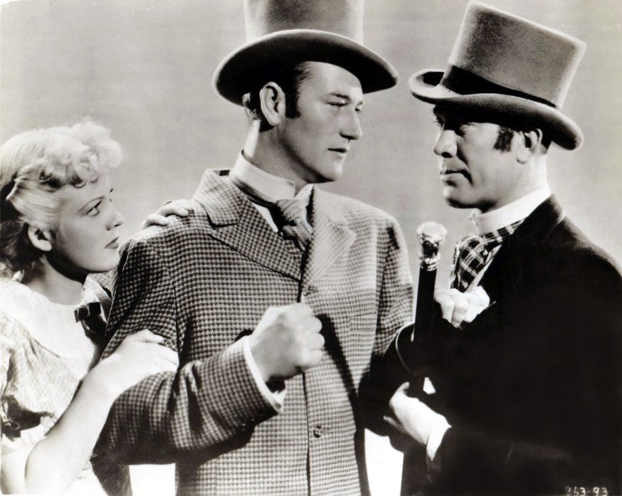 L. to R. : Jean Rogers, John Wayne & Ward Bond in Conflict - publicity still (cropped)